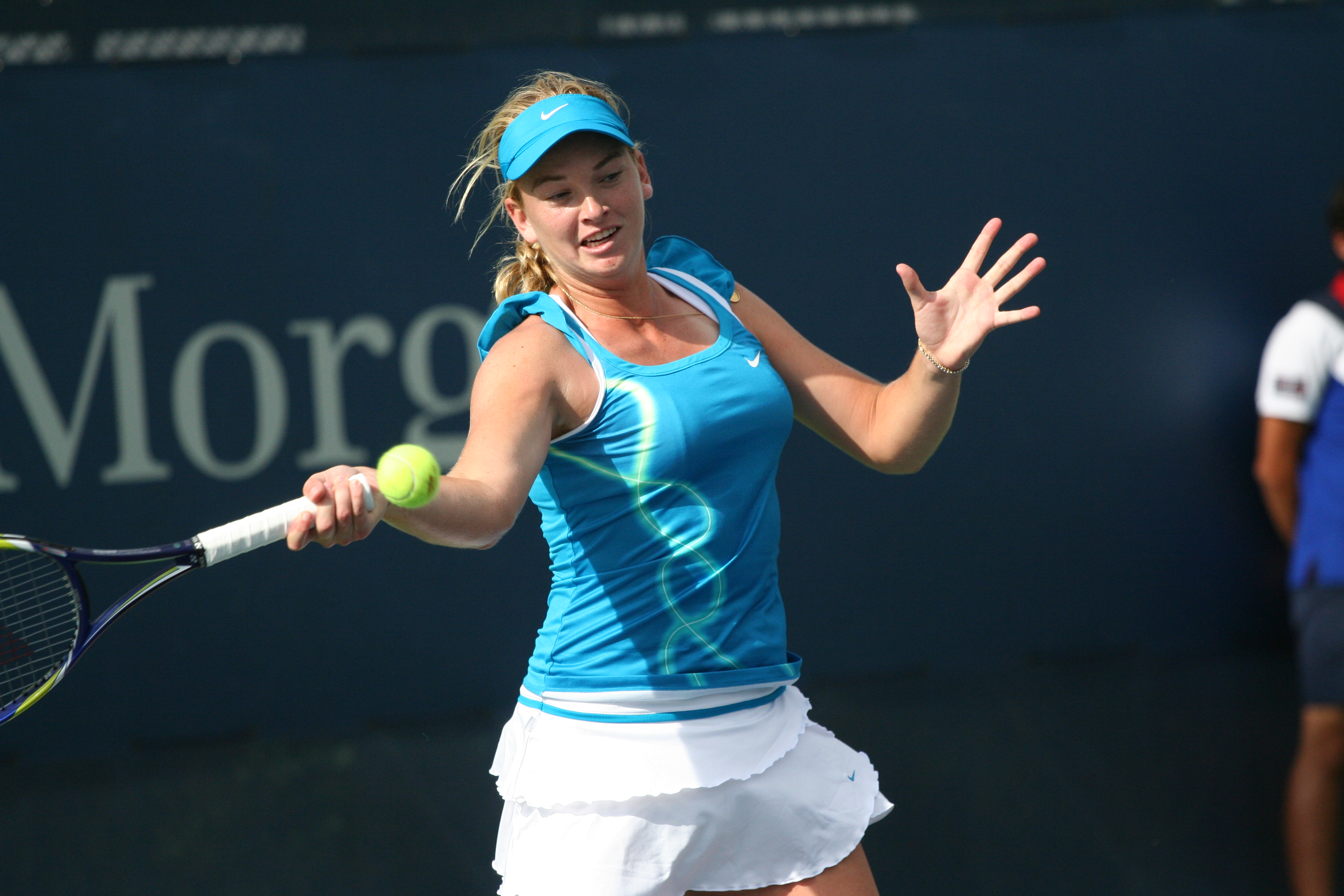 Coco Vandeweghe at the 2010 U.S. Open, Saturday, Sept. 4, 2010